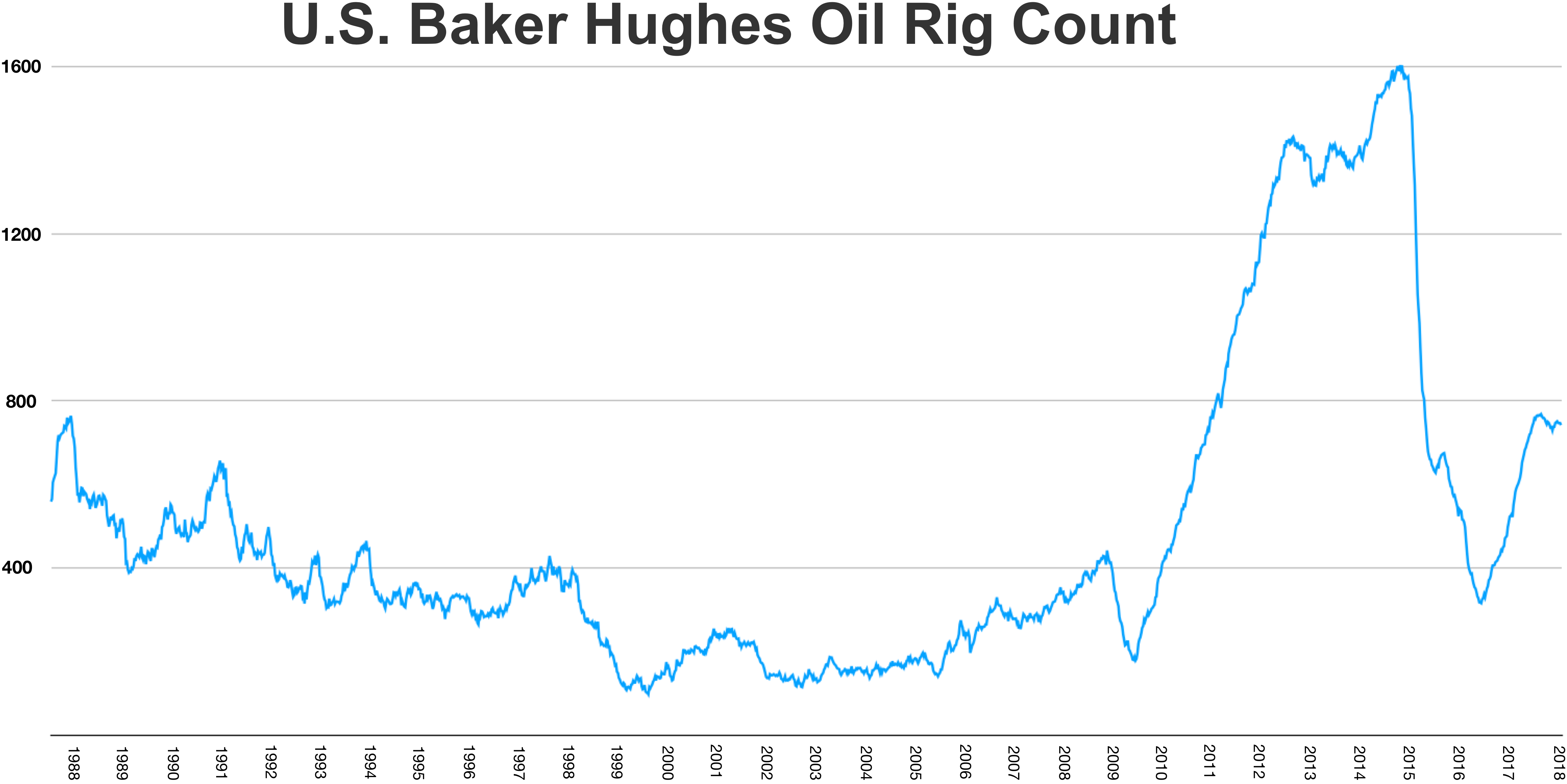 U.S. Baker Huges oil rig count